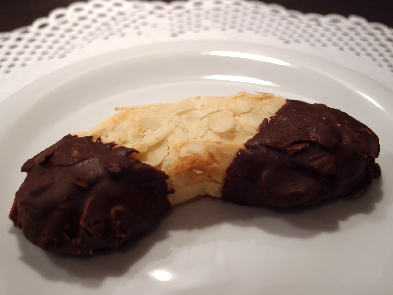 Mandelhörnchen (almond croissant), German macaroon made from marzipan, almonds, and chocolate